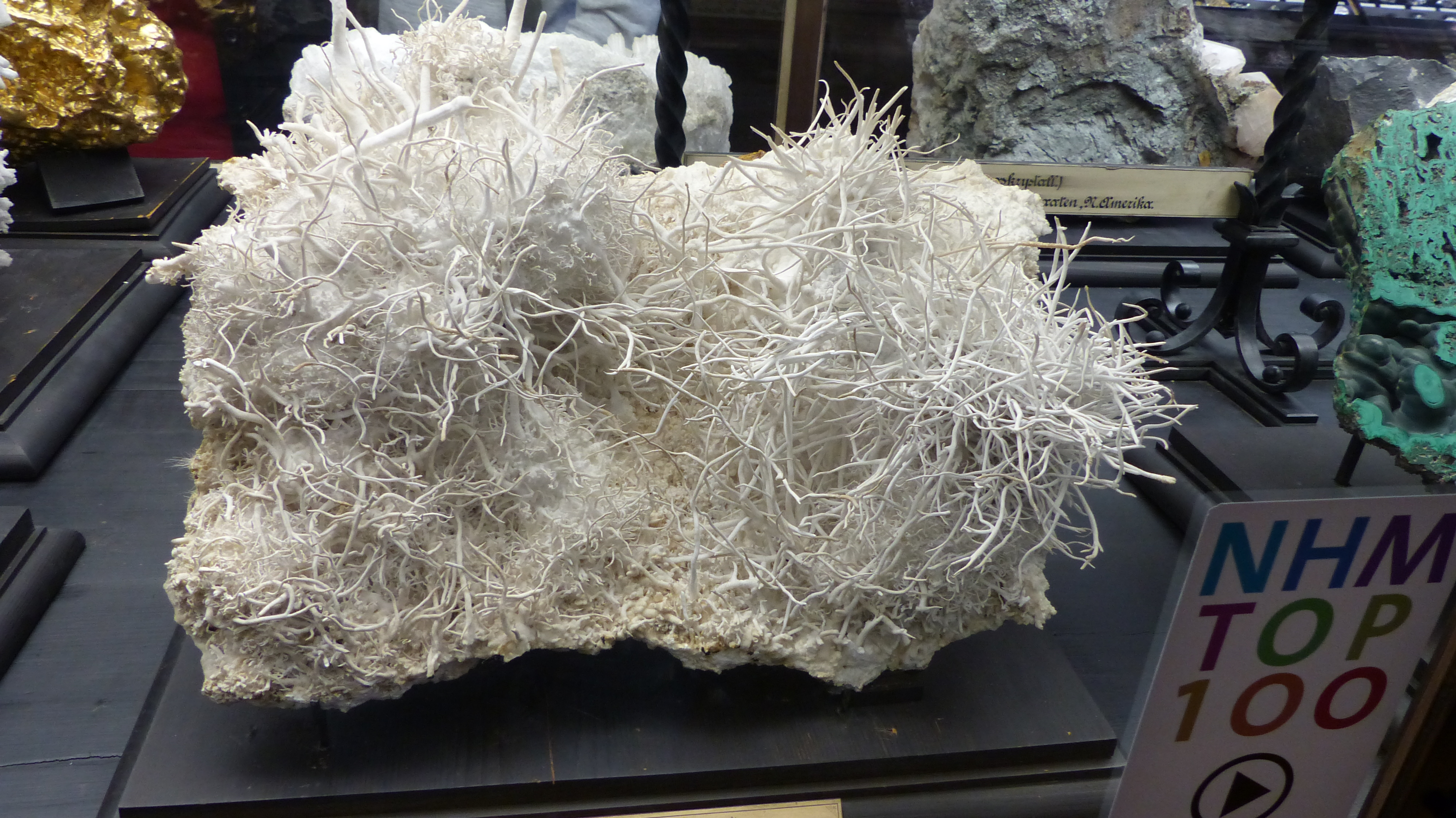 Aragonite - Nature History Museum Vienna